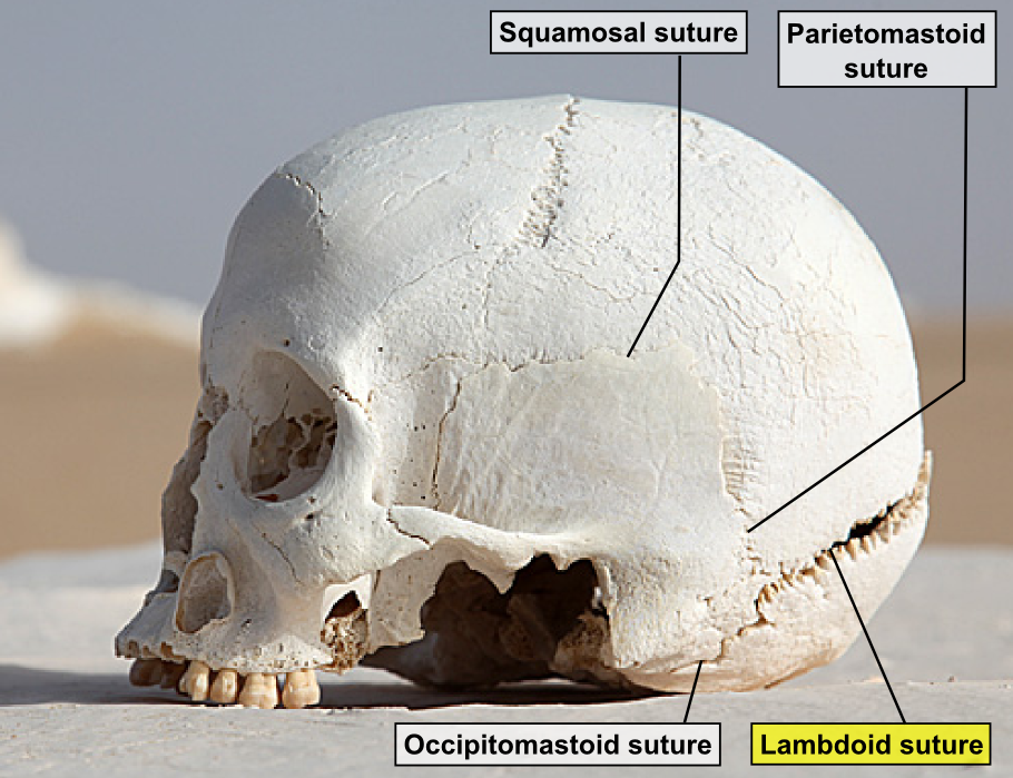 Lambdoid suture. Labeled at bottom right in yellow text.